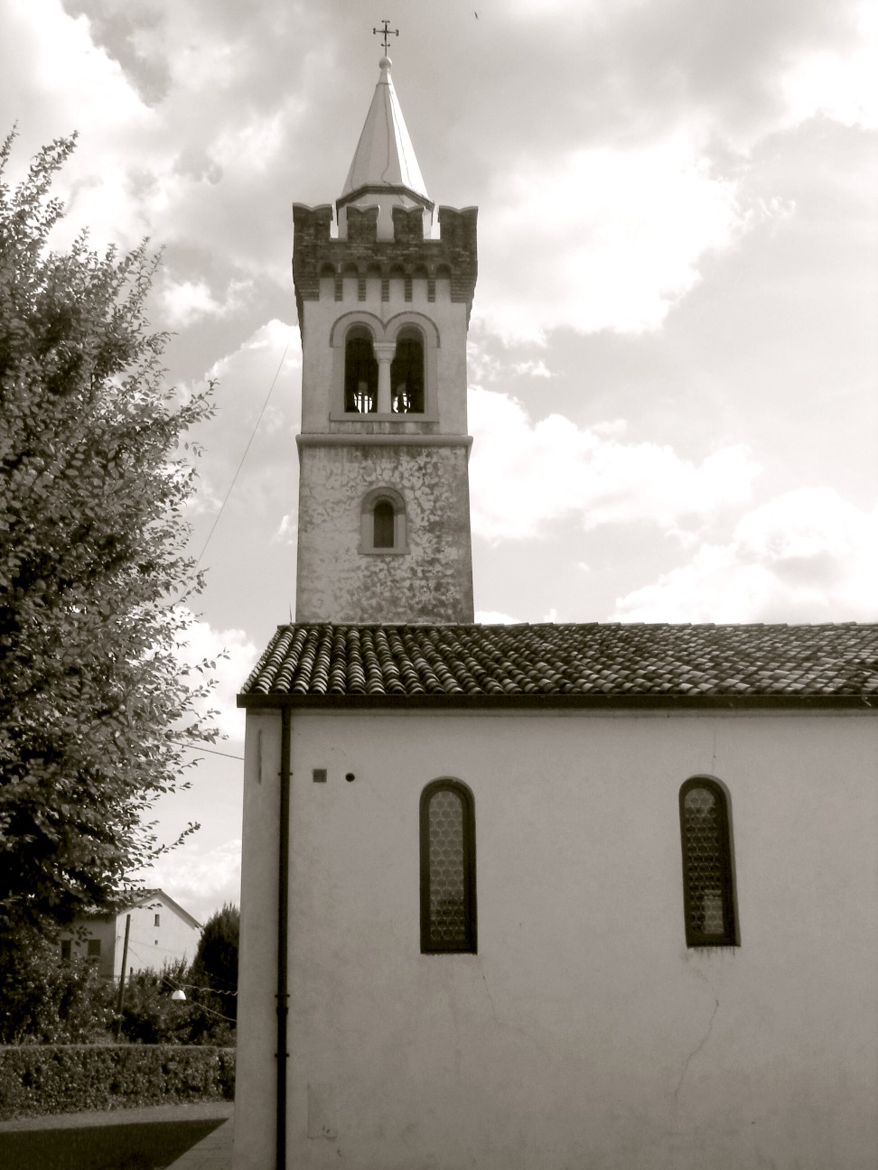 San Michele: campanile